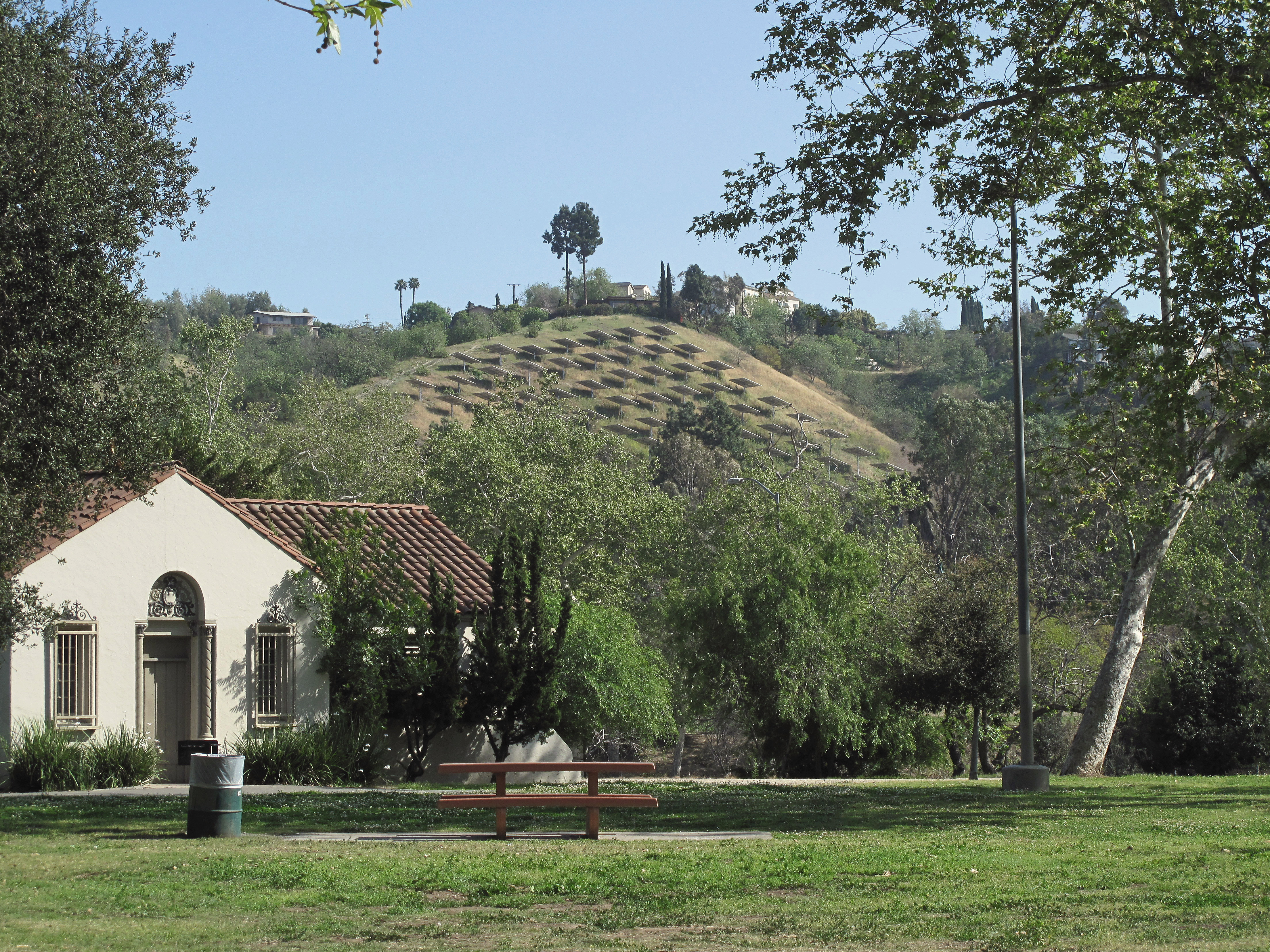 Sycamore Grove Park in the Arroyo Seco, and the Montecito Heights district of Northeast Los Angeles, California. View toward the hillside solar panel installation in the San Rafael Hills, just below Ernest E. Debs Regional Park.